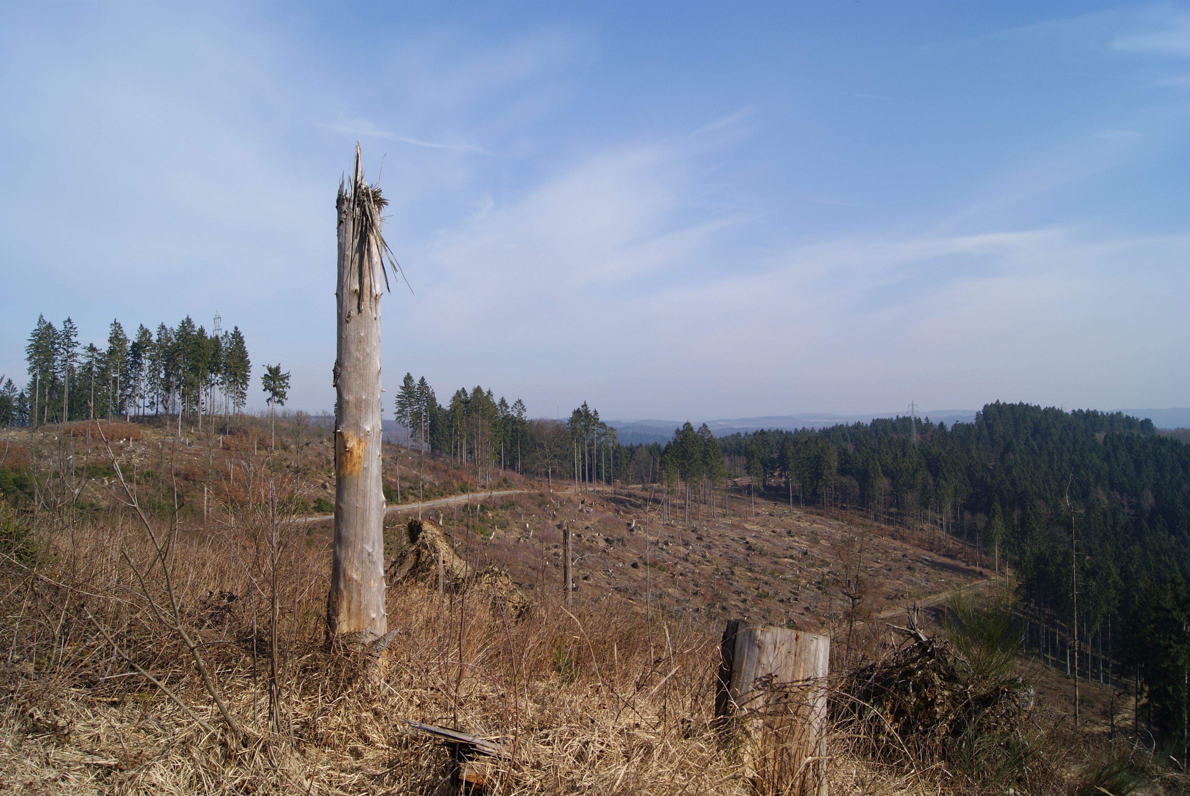 Plittershagen/Mt. Ginsberg (southern slope), Freudenberg, Germany. Deforested by Kyrill storm in 2007.